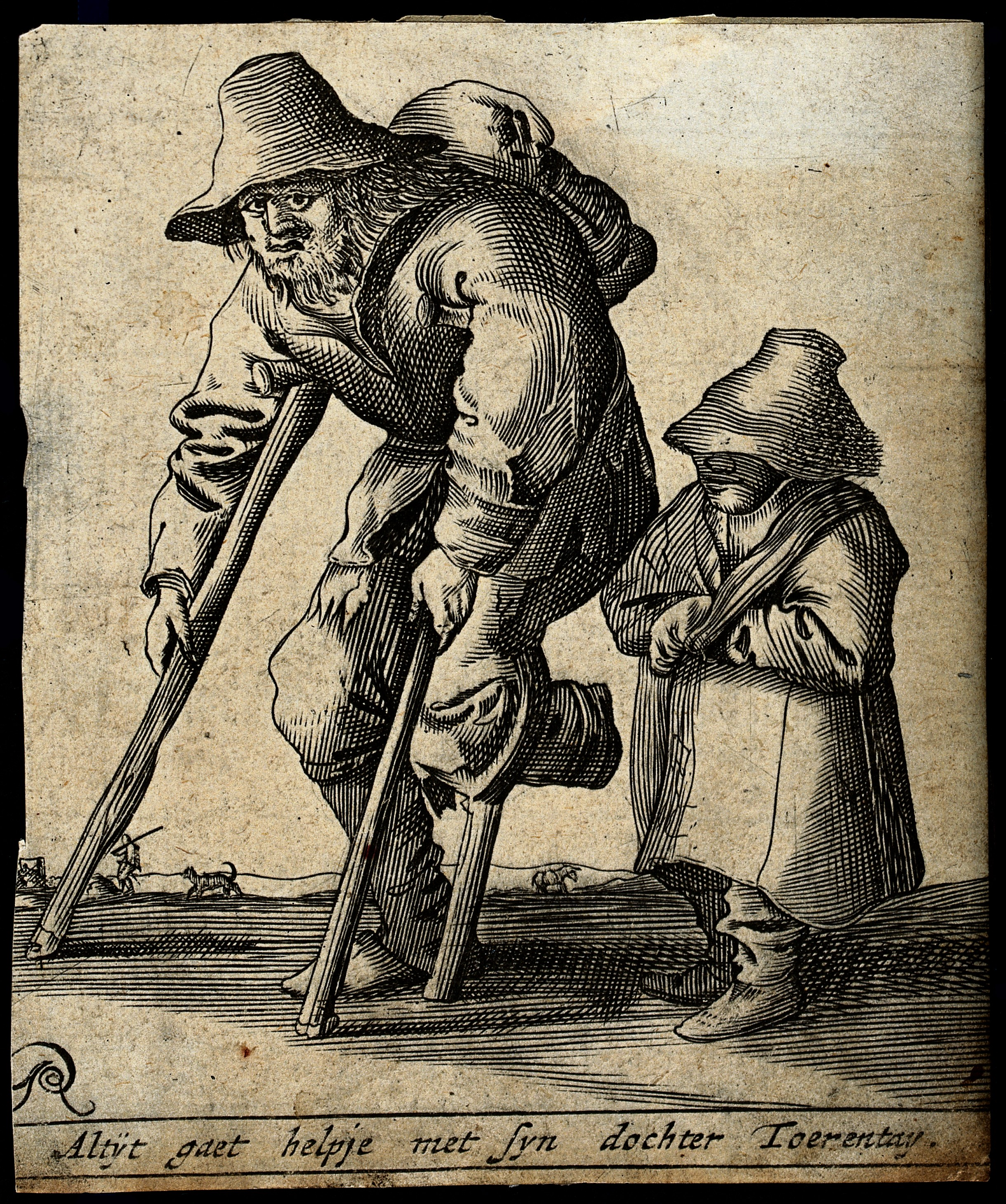 A crippled beggar moves with crutches accompanied by a little girl wearing a hat and her arm in a sling. Engraving with etching by R.R. Iconographic Collections Keywords: R. R.